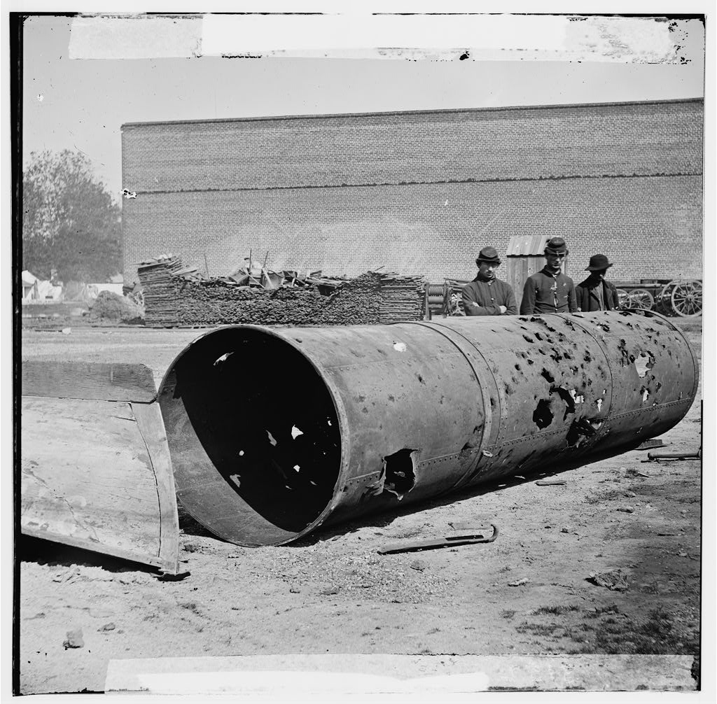 Battered smokestack from C.S.S. Virginia II after the battle of Trent's Reach